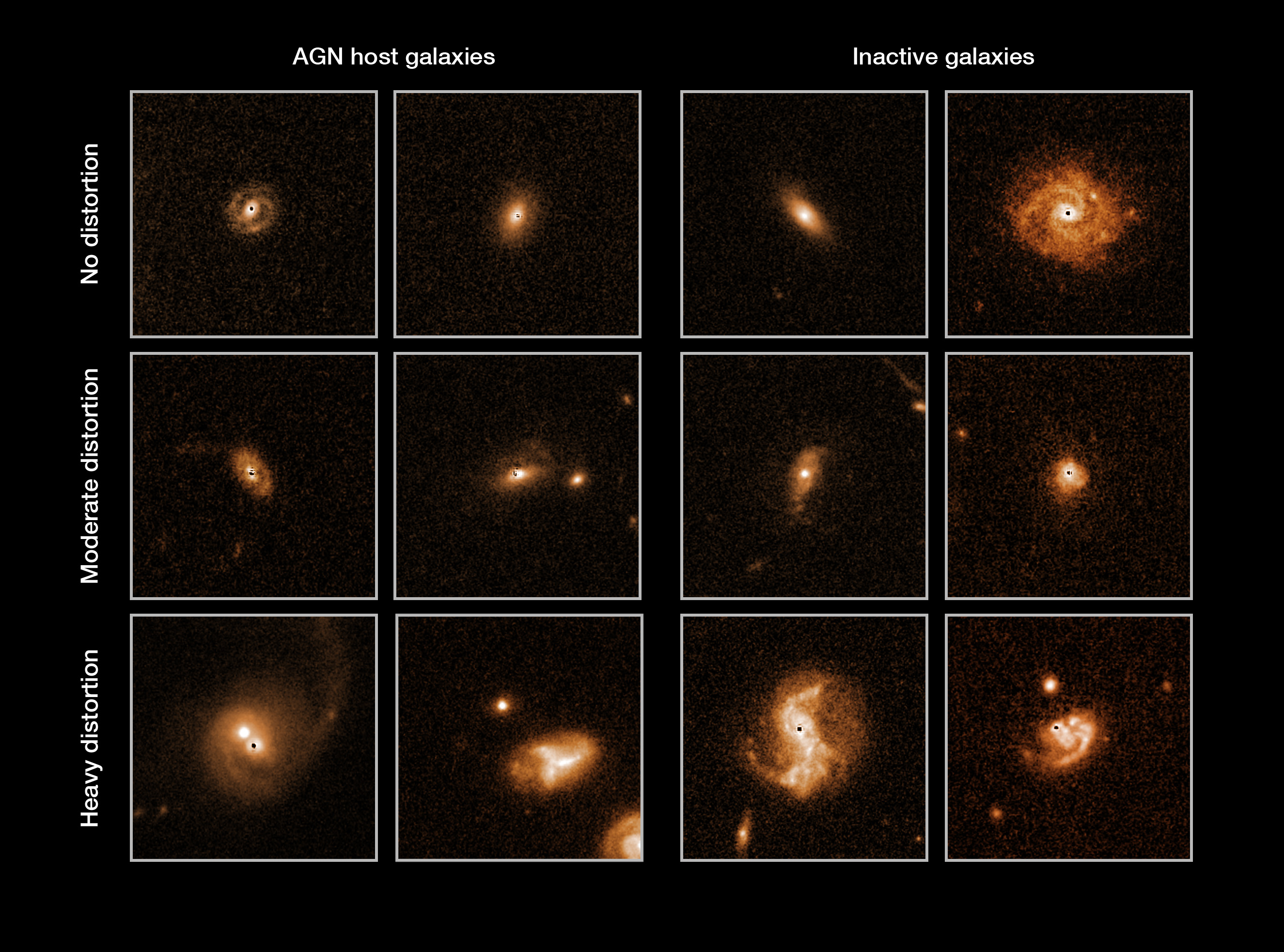 A team of astronomers studied over 1400 galaxies snapped by Hubble in the COSMOS survey, to test the hypothesis that galactic mergers trigger active galactic nuclei (AGN). In order to make this a blind test, the team modelled and removed the active nucleus (which normally appears as a bright spot) from each galaxy, and then cosmetically added a similar mark to the galaxies without an AGN, to make them visually indistinguishable. This explains the black dot visible near the centre of each of these images. They then categorised the galaxies, according to whether they showed no sign of recent mergers (top), minor signs (middle row) or clear signs of disruption from a recent merger (bottom). Analysing these results, they found that galaxies with active nuclei (left) and those with inactive nuclei (right) showed no statistically significant difference in the proportion that had undergone mergers. This means that processes other than galactic mergers must trigger AGN activity.